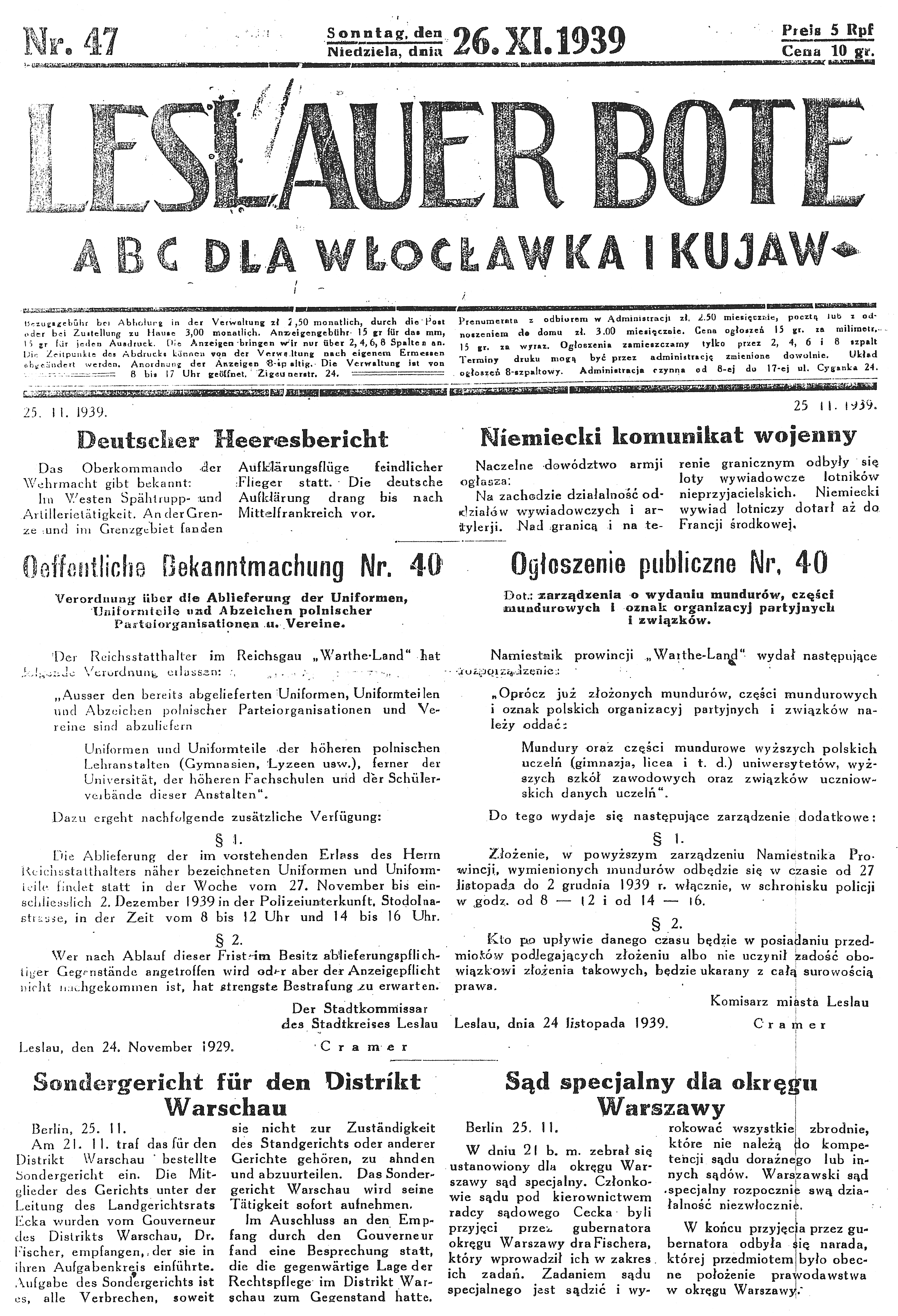 'Leslauer Bote. ABC dla Włocławka i Kujaw'